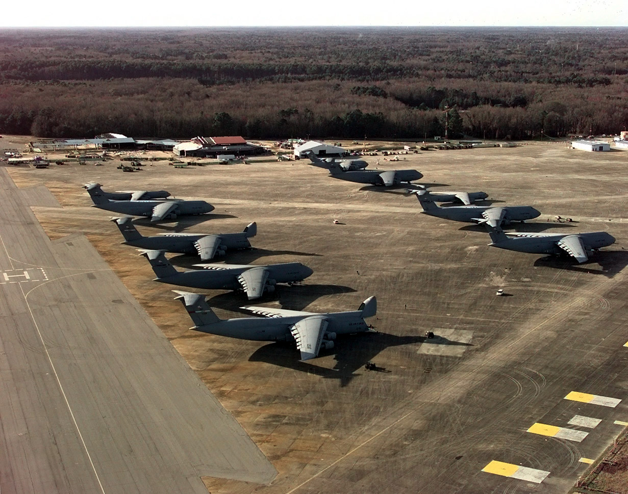 U.S. Air Force C-5 Galaxys, C-141 Starlifters and C-17 Globemasters III from the Air Mobility Command sit on the parking ramp as they wait for loading at Hunter Army Air Field, Ga., on Feb. 17, 1998. The aircraft will airlift equipment and personnel to the Southwest Asia theater in support of Operation Southern Watch. Southern Watch is the U.S. and coalition enforcement of the no-fly-zone over Southern Iraq. The Starlifters are from the 315th Wing, McGuire Air Force Base, N.J. The Globemasters are from the 437th Wing, Charleston Air Force Base, S.C. The Galaxys are from the 60th Wing, Travis Air Force Base, Calif., and the 436th Wing from Dover Air Force Base, Del.